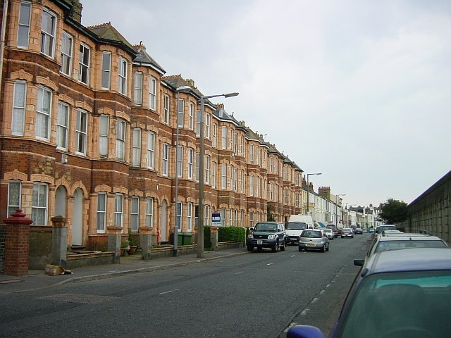 Terraced houses on Marine Parade, Sheerness. I'm told this is known as Shrimp Terrace. No view of the sea from the ground floor but it lies just behind the sea wall on the right of the picture. Looking west towards the town.